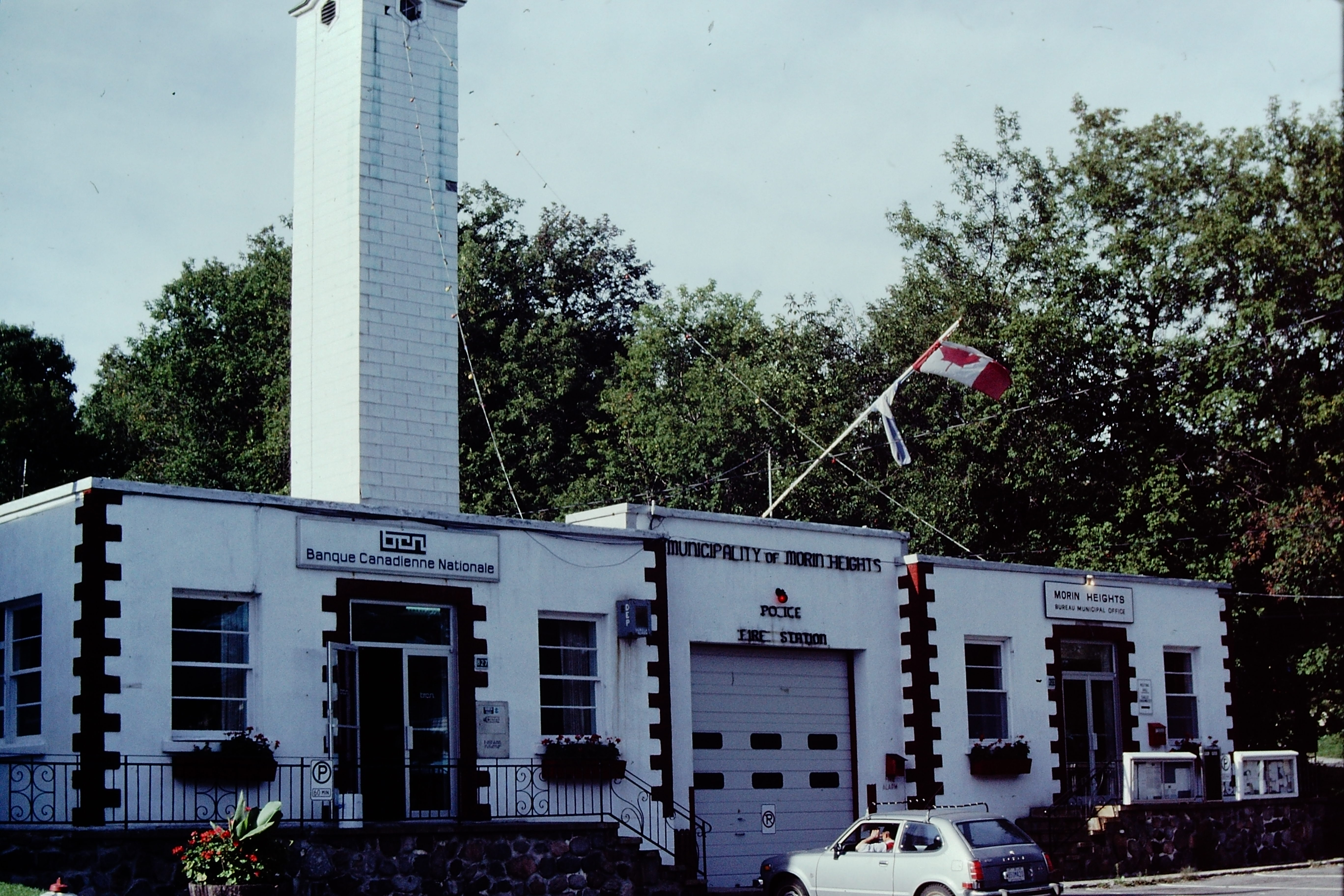 Morin-Heights municipal office, fire hall and police station. Branch of Banque Canadienne Nationale.